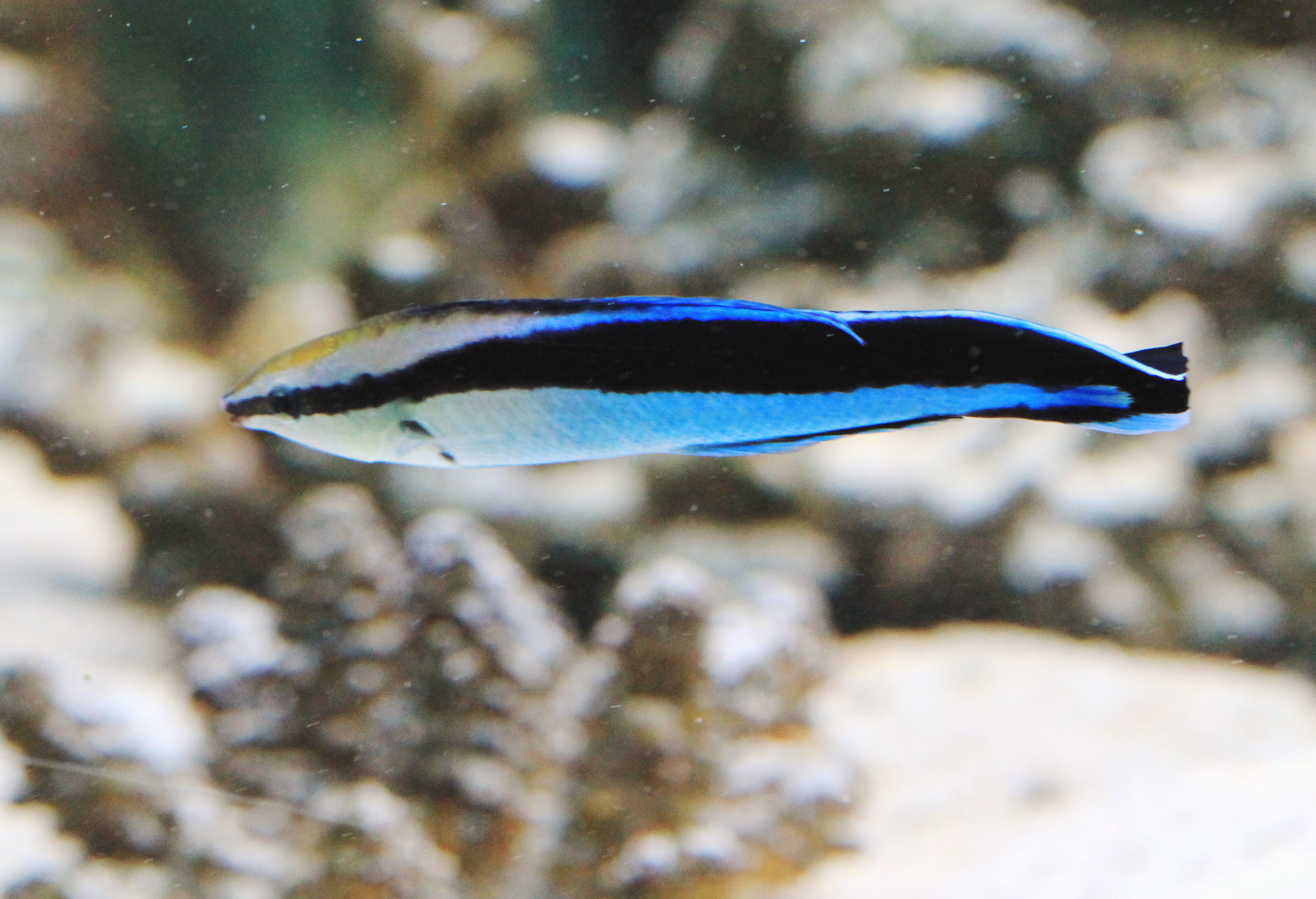 Fish Bluestreak cleaner wrasse, (Labroides dimidiatus) in Prague sea aquarium “Sea world”, Czech Republic Česky: Ryba pyskoun rozpůlený, Labroides dimidiatus v pražském mořském akváriu Mořský svět v Holešovicích